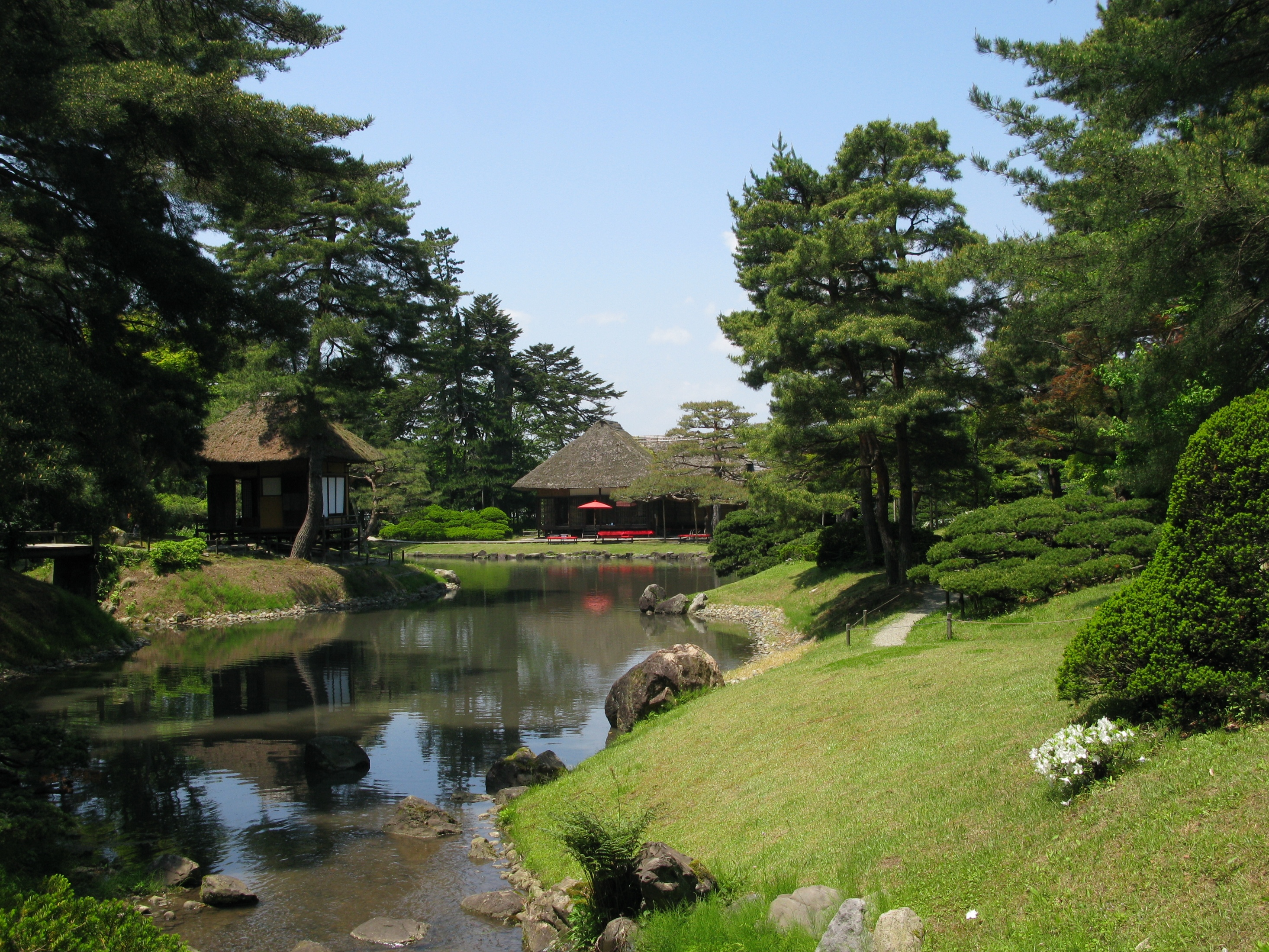 Aizu Matsudaira's Royal Garden, Aizuwakamatsu city, Fukushima pref., Japan